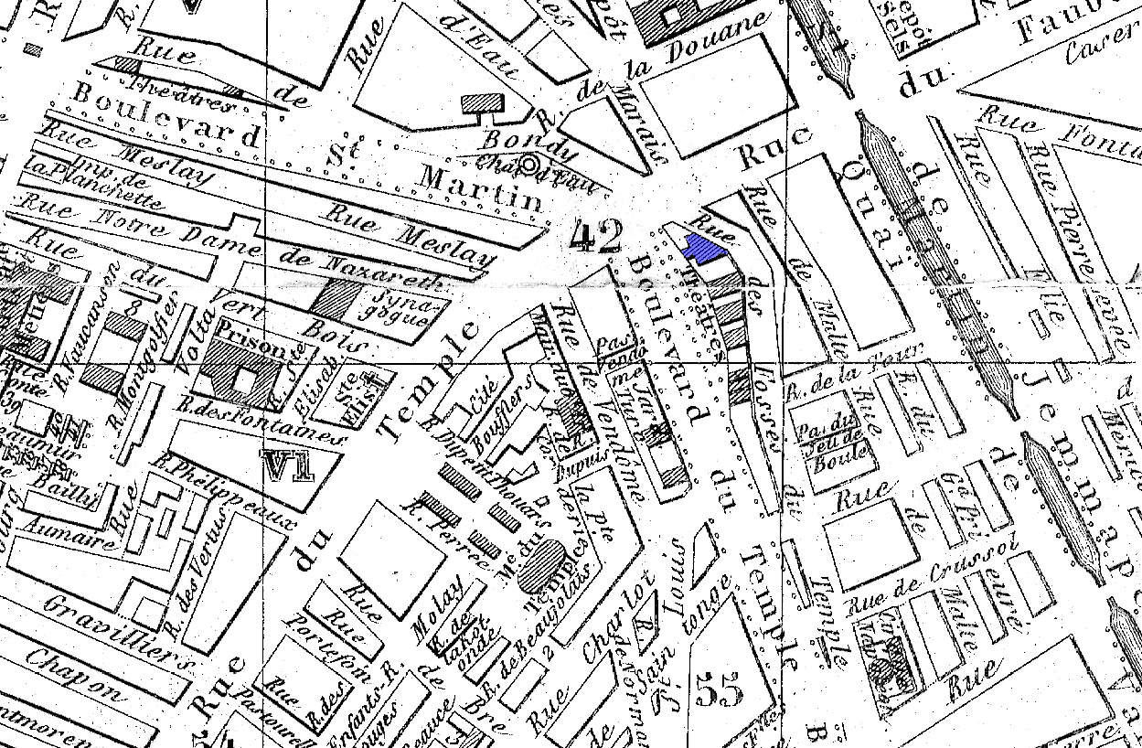 This is a small section of an 1857 map of Paris which shows the location of the Théâtre Historique (marked in blue) on the boulevard du Temple. The title of the original map in French is: "Nouveau plan de Paris : à l'usage des promeneurs d'après la méthode Zugenbuhler, auteur d'un Atlas universel.". Scale: 1:8,500. (See "Paris in the 19th Century" at the University of Chicago Library website.) Resolution: 400 dpi. The image mode was converted to grayscale, and the light levels altered from those of the original digital copy, then the blue to mark the location of the theatre was added. The alterations were made with Photoshop Elements 4.